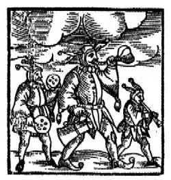 Purimshpiler, Amsterdam. 1723